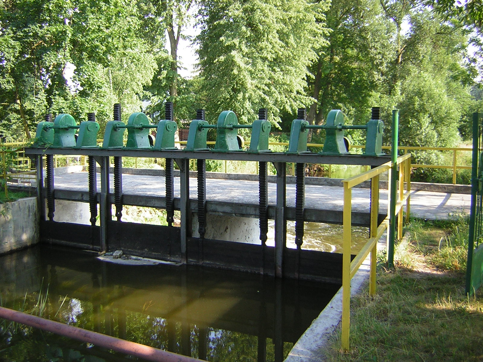 Weir in Iława